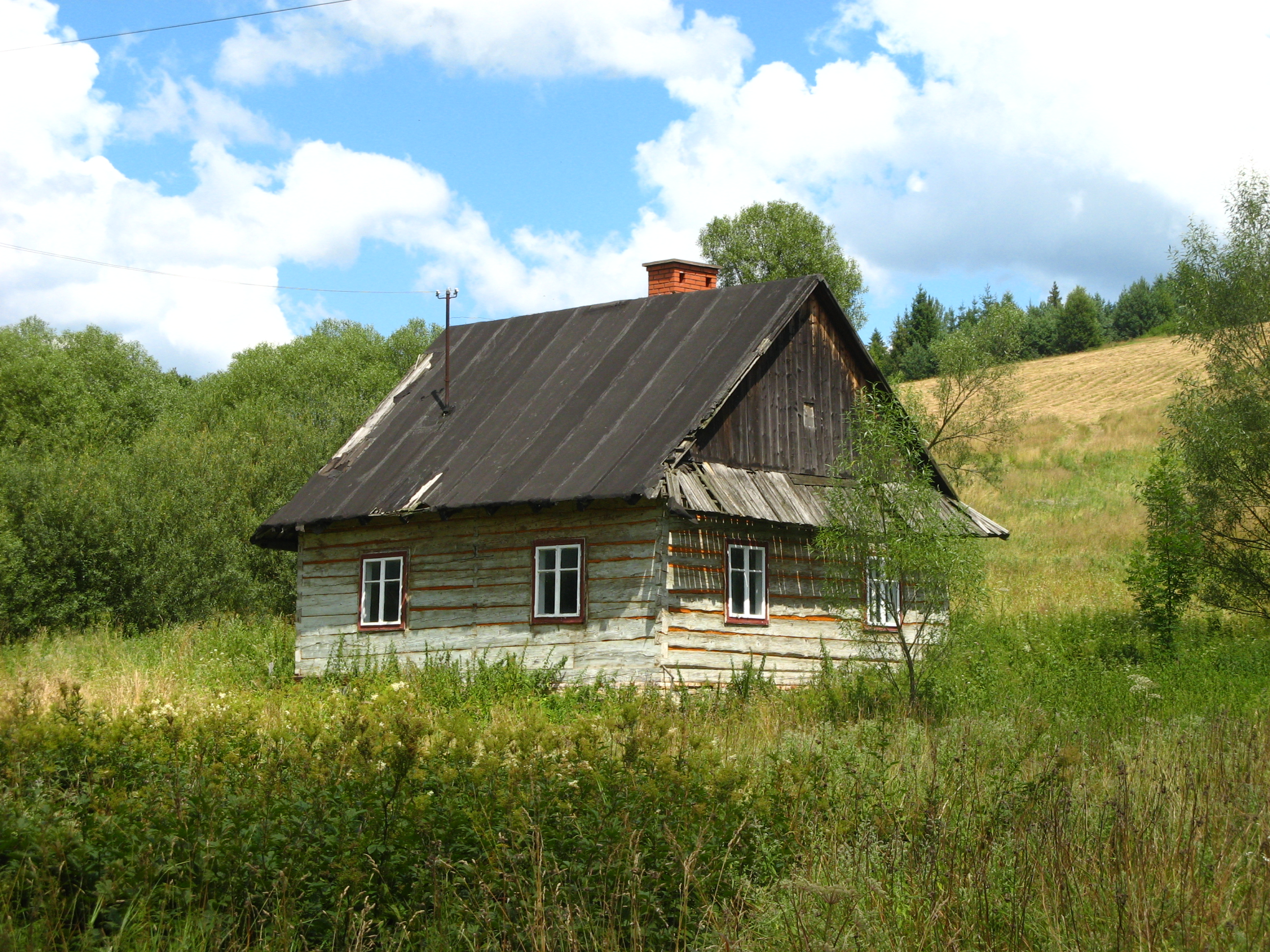 Wooden house in village Liskowate, Poland